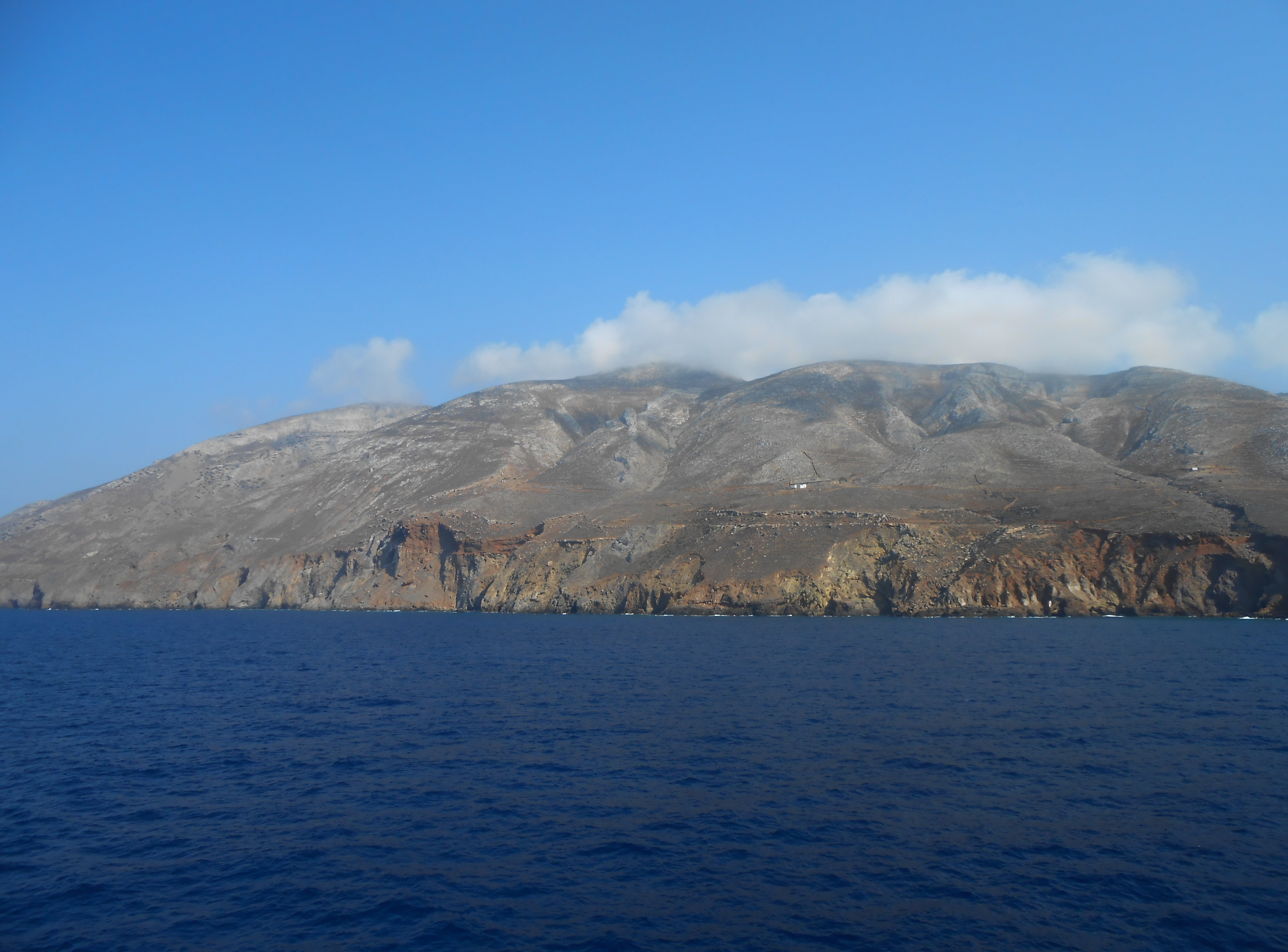 Kasos Island, Dodecanese, Greece. This is a photography of Natura 2000 protected area with ID GR4210028